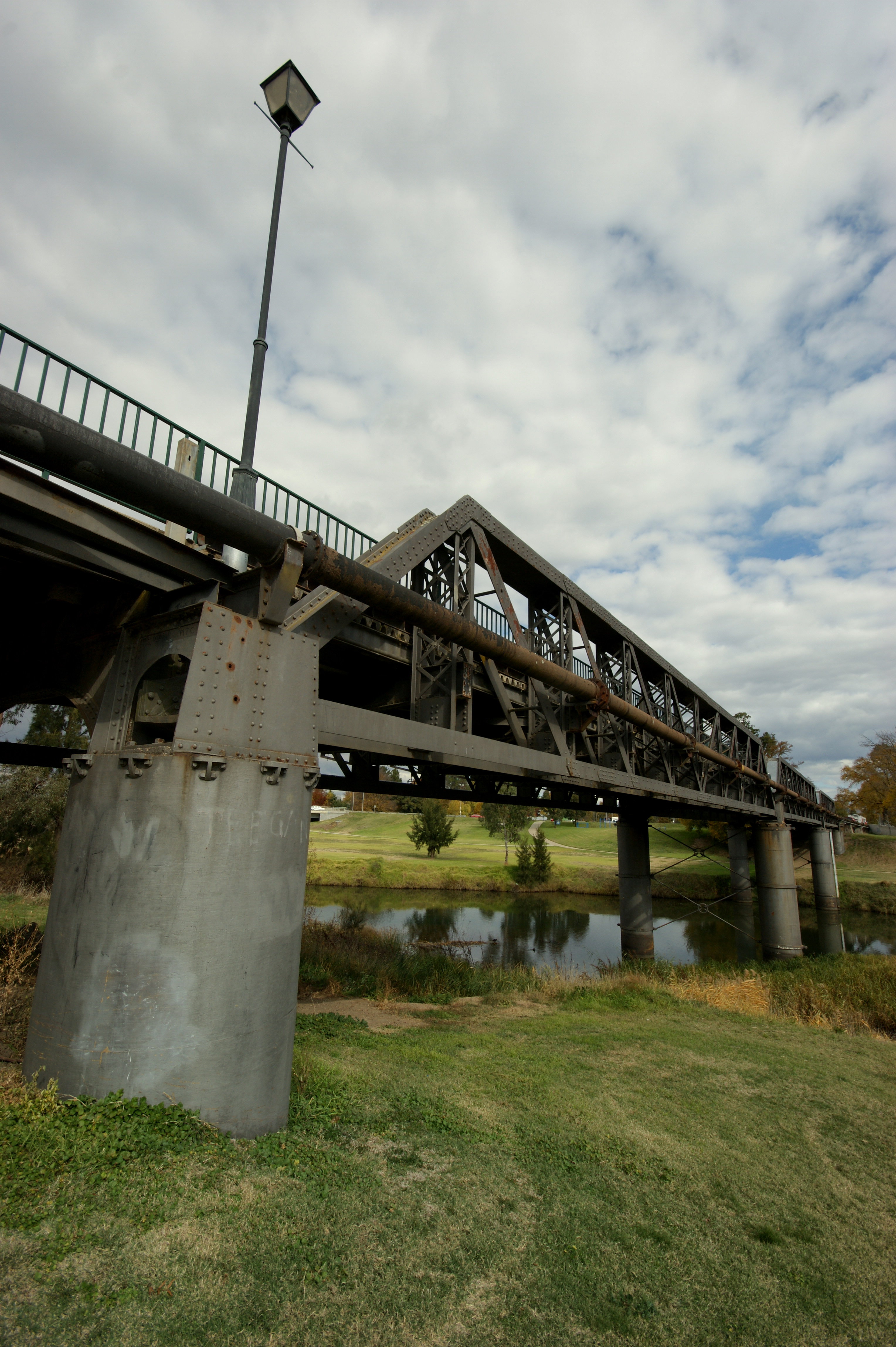 Built June 1870 across the Macquarie River, at Bathurst, New South Wales Australia. The Bridge is the second oldest metal truss bridge remaining in New South Wales.